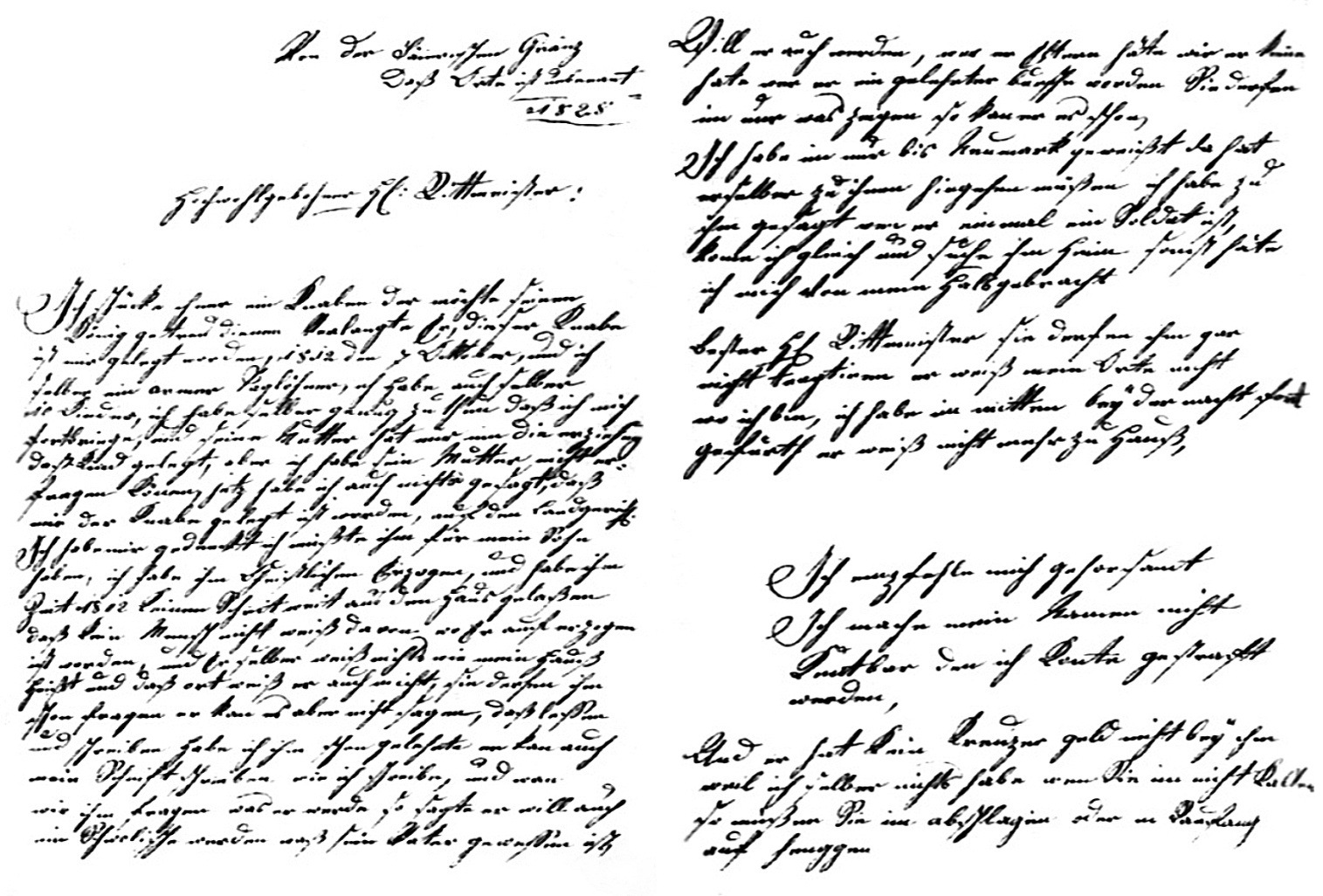 From a place, near the Bavarian frontier which shall be nameless, 1828. HIGH AND WELL BORN CAPTAIN! I send you a boy who wishes faithfully to serve his king. This boy was left in my house the 7th day of October, 1812; and I am myself a poor day laborer, who have also ten children and have enough to do to maintain my own family. The mother of the child only put him in my house for the sake of having him brought up. But I have never been able to discover who his mother is; nor have I ever given information to the provincial court that such a child was placed in my house. I thought I ought to receive him as my son. I have given him a Christian education; and since 1812 I have never suffered him to take a single step out of my house. So that no one knows where he was brought up. Nor does he know either the name of my house or where it is. You may ask him, but he cannot tell you. I have already taught him to read and write, and he writes my handwriting exactly as I do. And when we asked him what he would be, he said he would be one of the Chevaux-legers, as his father was. If he had had parents different from what he has, he would have become a learned lad. If you show him anything, he learns it immediately. I have only showed him the way to Neumark, whence he was to go to you. I told him, that when he had once become a soldier I should come to take him home, or I should lose my head. Good Mr. Captain, you need not try him; he does not know the place where I am. I took him away in the middle of the night, and he knows not the way home. I am your most obedient servant. I do not sign my name, for I might be punished. He has not a kreutzer of money; because I have none myself. If you do not keep him, you may get rid of him, or let him be scrambled for. (Translation by Henning Gottfried Linberg; from the American edition of Feuerbach: Caspar Hauser, Boston 1832)